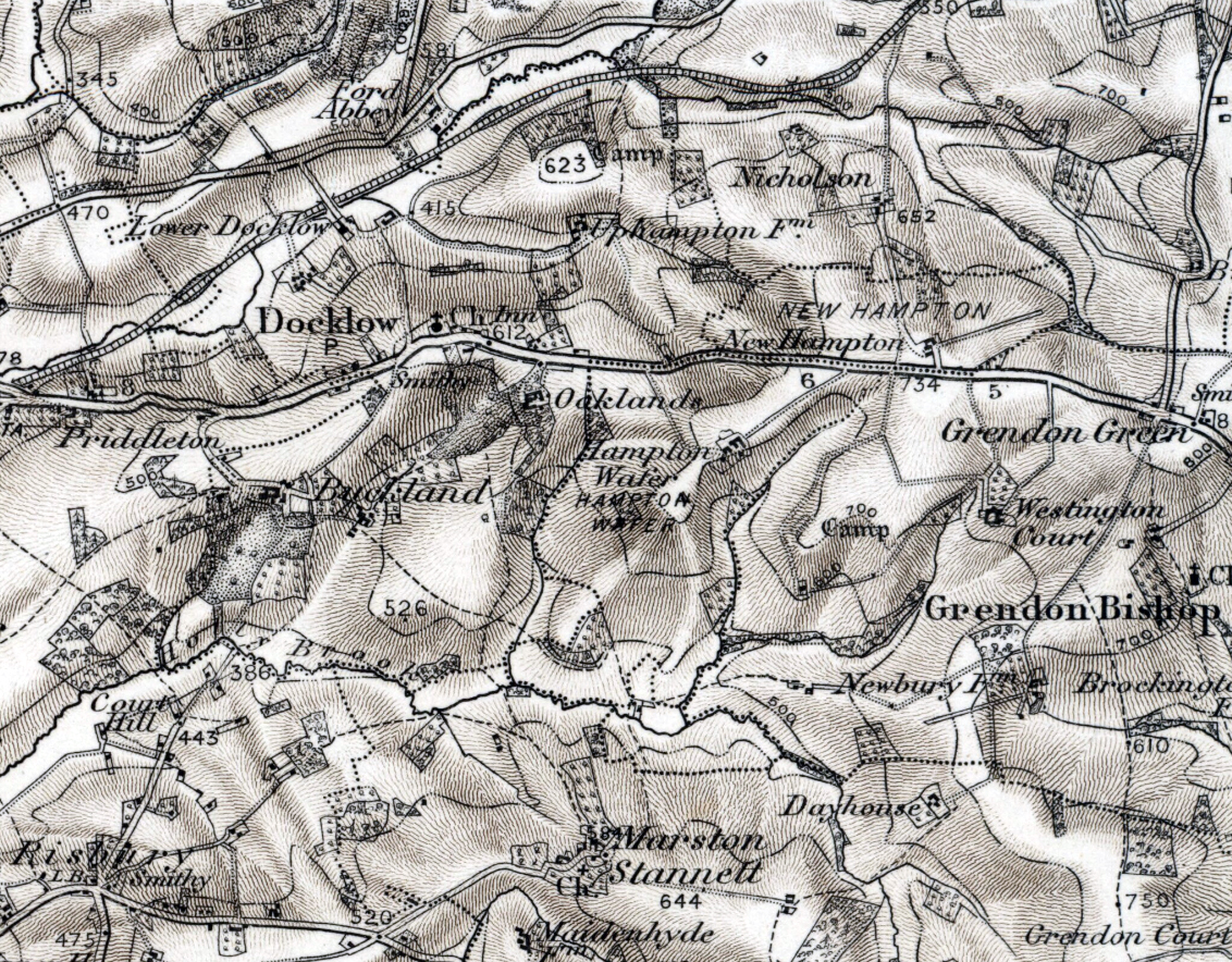 1898 Ordnance Survey map of Docklow and Hampton Wafer, Herefordshire, England in OS Map Sheet 198 - Hereford (Hills). Reproduced with the permission of the National Library of Scotland.[1]